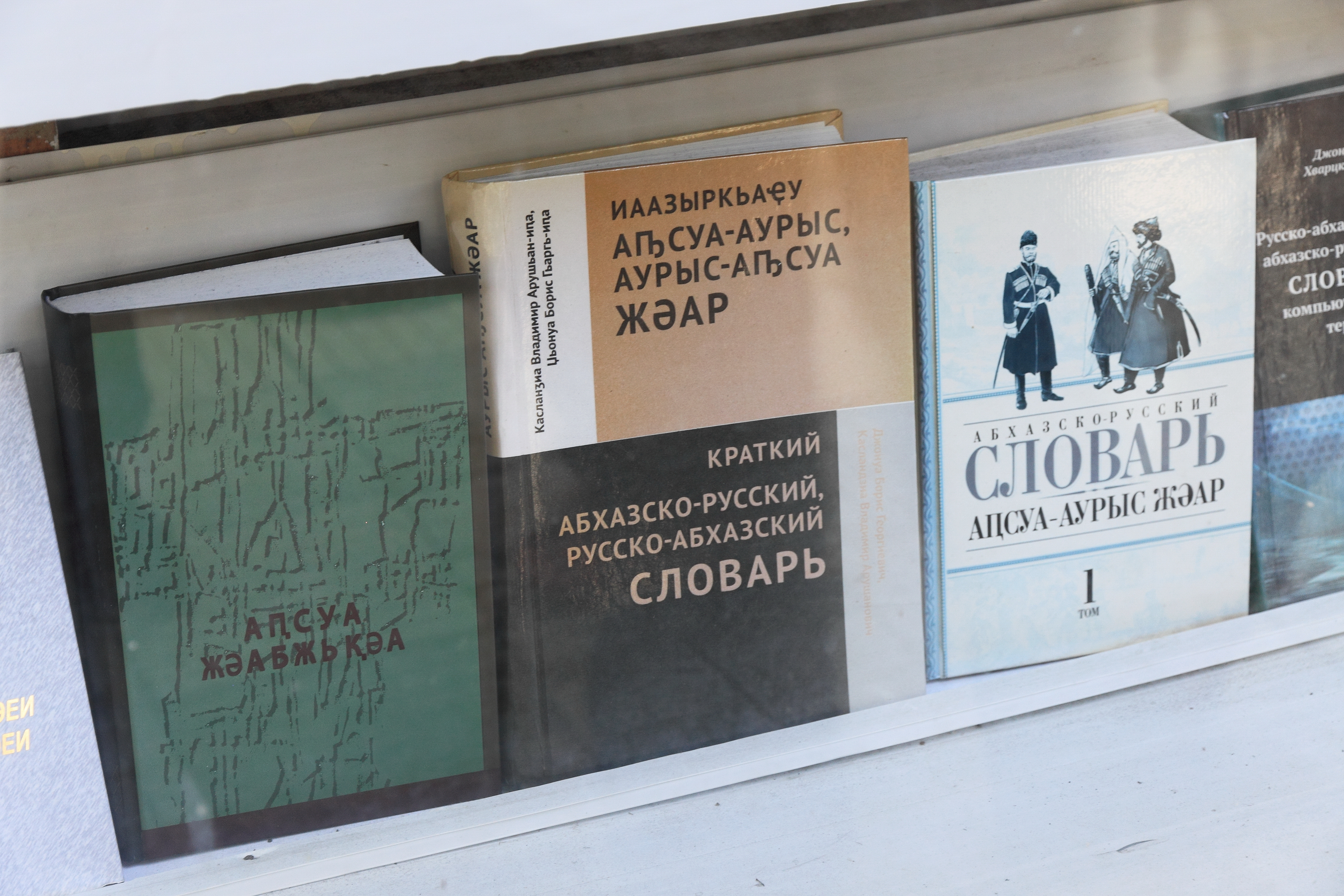 Russian-Abkhazian Dictionaries. Sukhumi, Abkhazia.